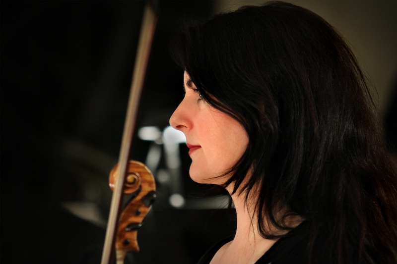 A close up of Maria Newman, composer, playing violin during a concert at the Stauffer Chapel at Pepperdine University. (24255 Pacific Coast Highway, Malibu, CA 90263)